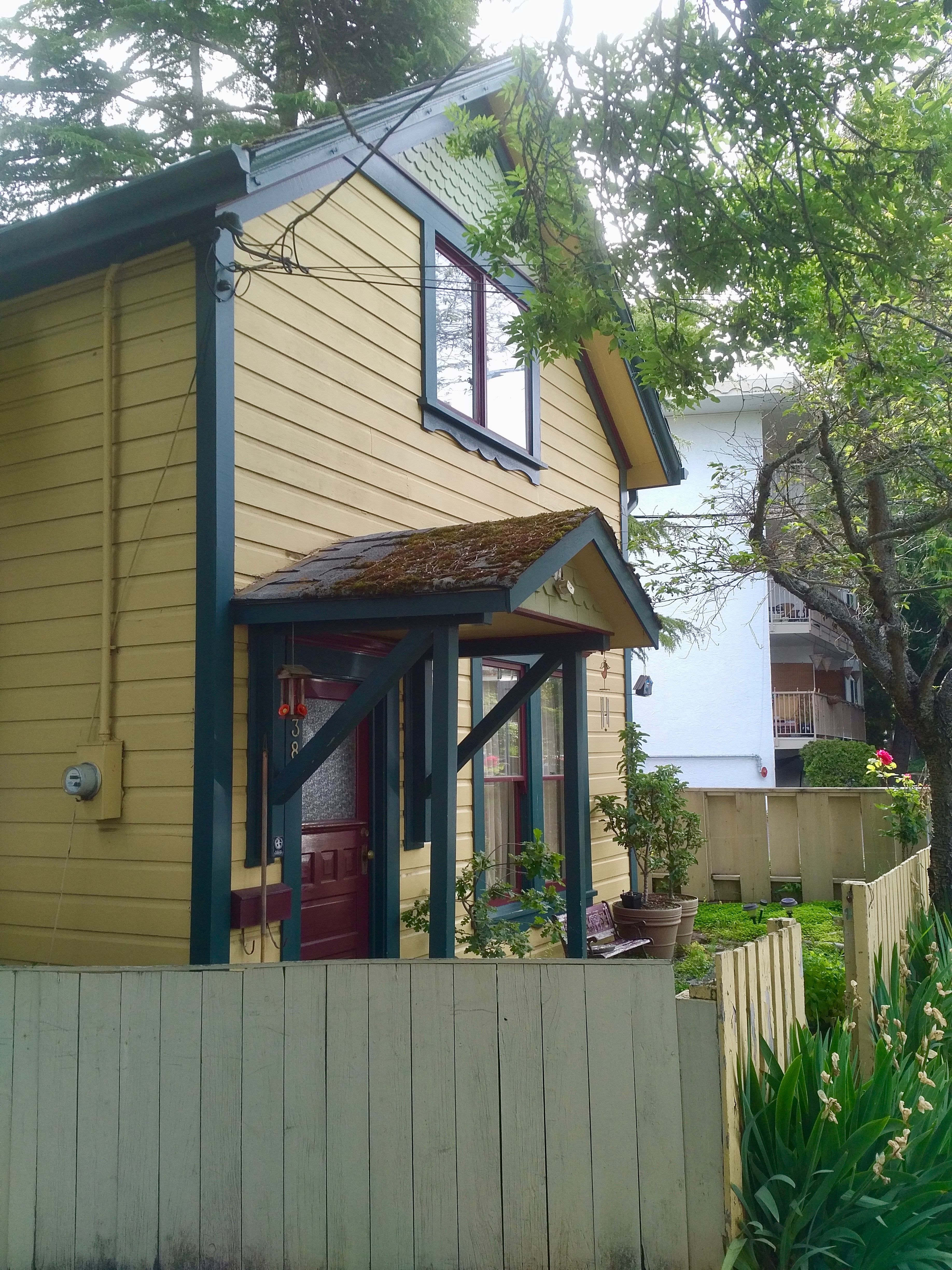 938 Collinson